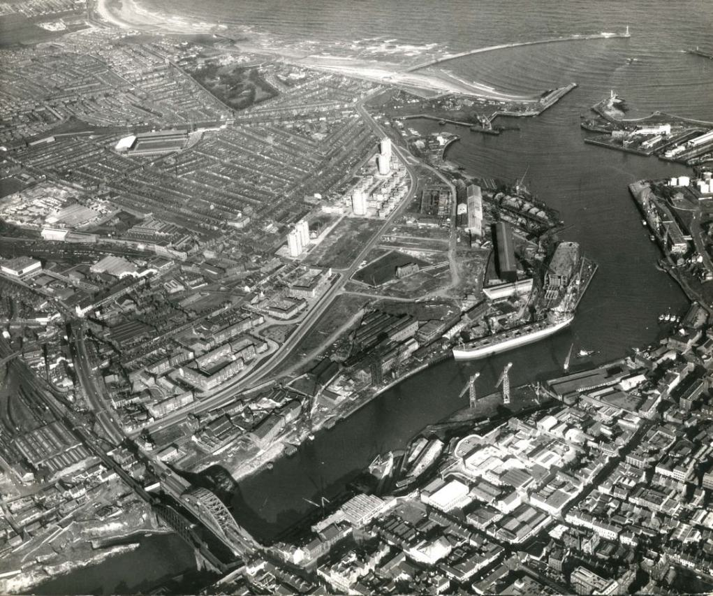 With Roker pier top right, this photograph looks north over Monkwearmouth and Roker. You can pick out Roker Park football ground top left and J.L. Thompson & Sons outfitting yard, centre right, working on a cargo vessel. Reference: TWAS: DT.TUR.7.7 (Copyright) We're happy for you to share this digital image within the spirit of The Commons. Please cite 'Tyne & Wear Archives & Museums' when reusing. Certain restrictions on high quality reproductions and commercial use of the original physical version apply though; if you're unsure please . To purchase a hi-res copy please quoting the title and reference number